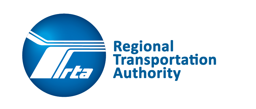 Regional Transportation Authority Illinois 2014.